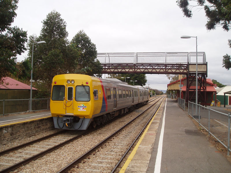 TransAdelaide's railcars nos. 3109/3110 at Alberton with 13.15 Outer Harbor to Adelaide service.